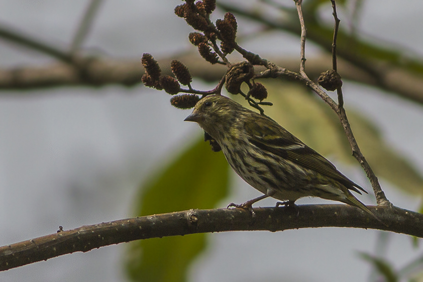 This is an image of Tibetan Siskin from Barsey Rhododendron Sanctuary, Sikkim photographed on 11.03.2013.